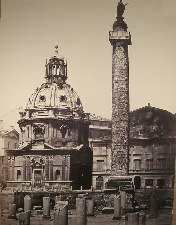 Robert MacPherson (1811-1872) - Rome - Trajan's Forum and column.